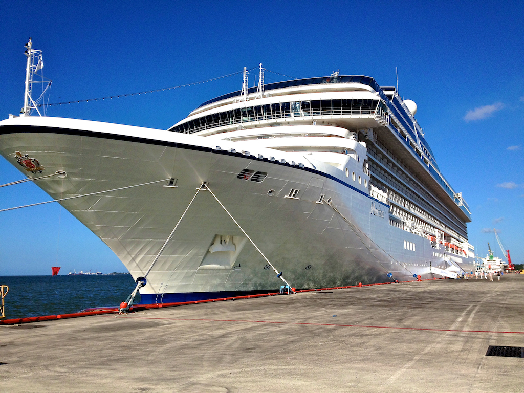 Santo Tomas - Puerto Barrios, Guatemala- ship at dock.